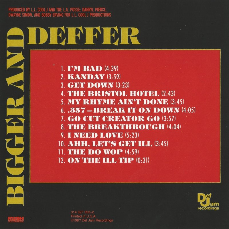 Inside CD booklet with the track listing for the LL Cool J album Bigger and Deffer. This is the 1995 U.S. reissue of the album that was released on Def Jam Recordings. The album was originally released in 1987 on Def Jam Recordings.